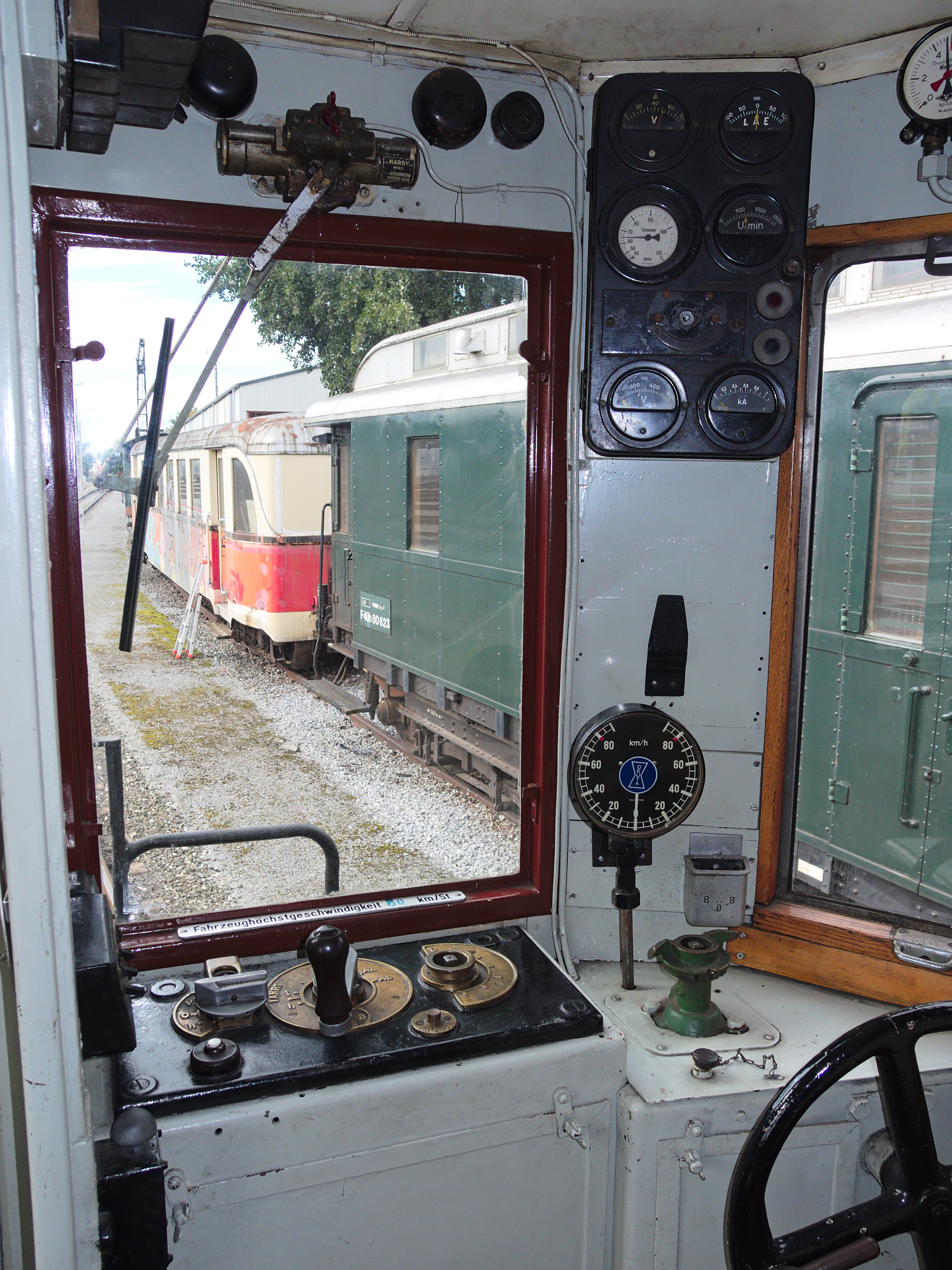 driver's cab of ÖBB 5041.03